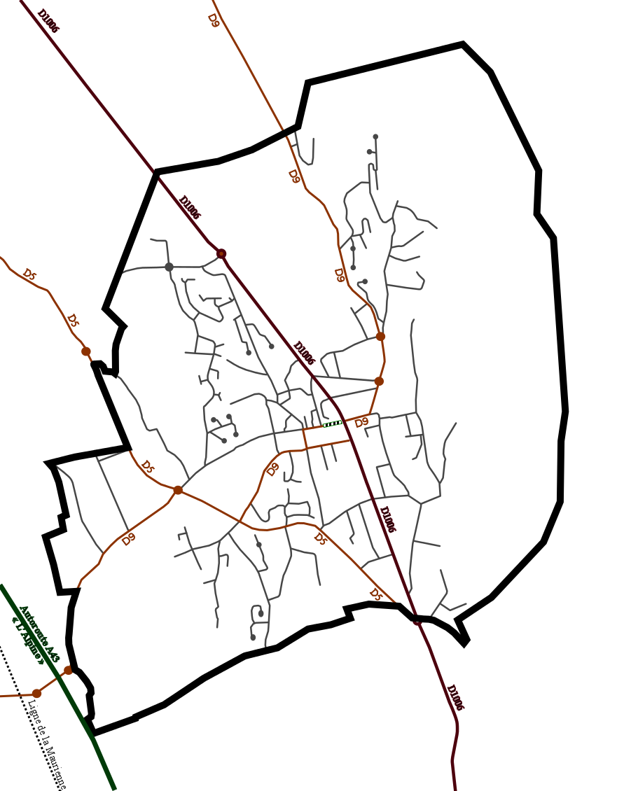 Map of transportation routes of Challes-les-Eaux.